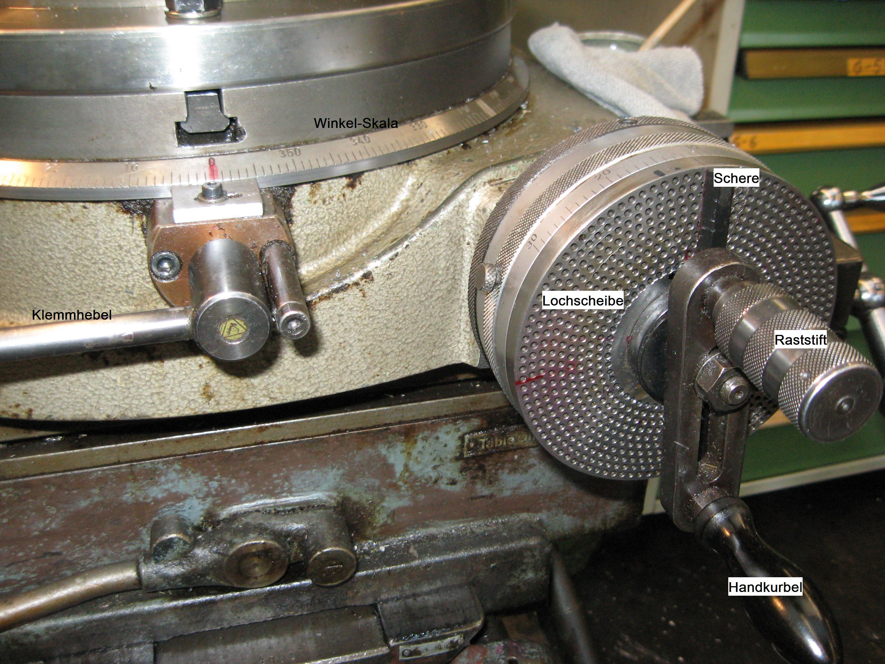 indexing table